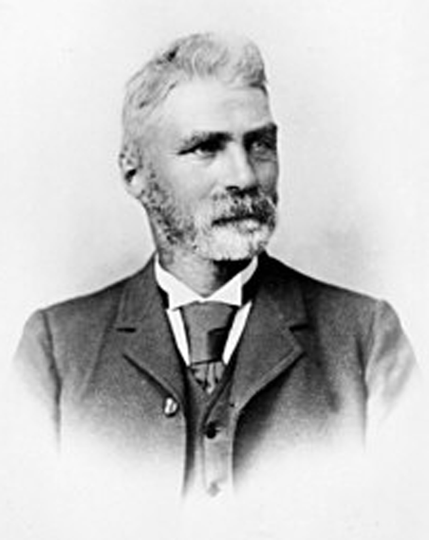 Portrait of Eureka shipbuilder Hans Ditlev Bendixsen circa 1900.